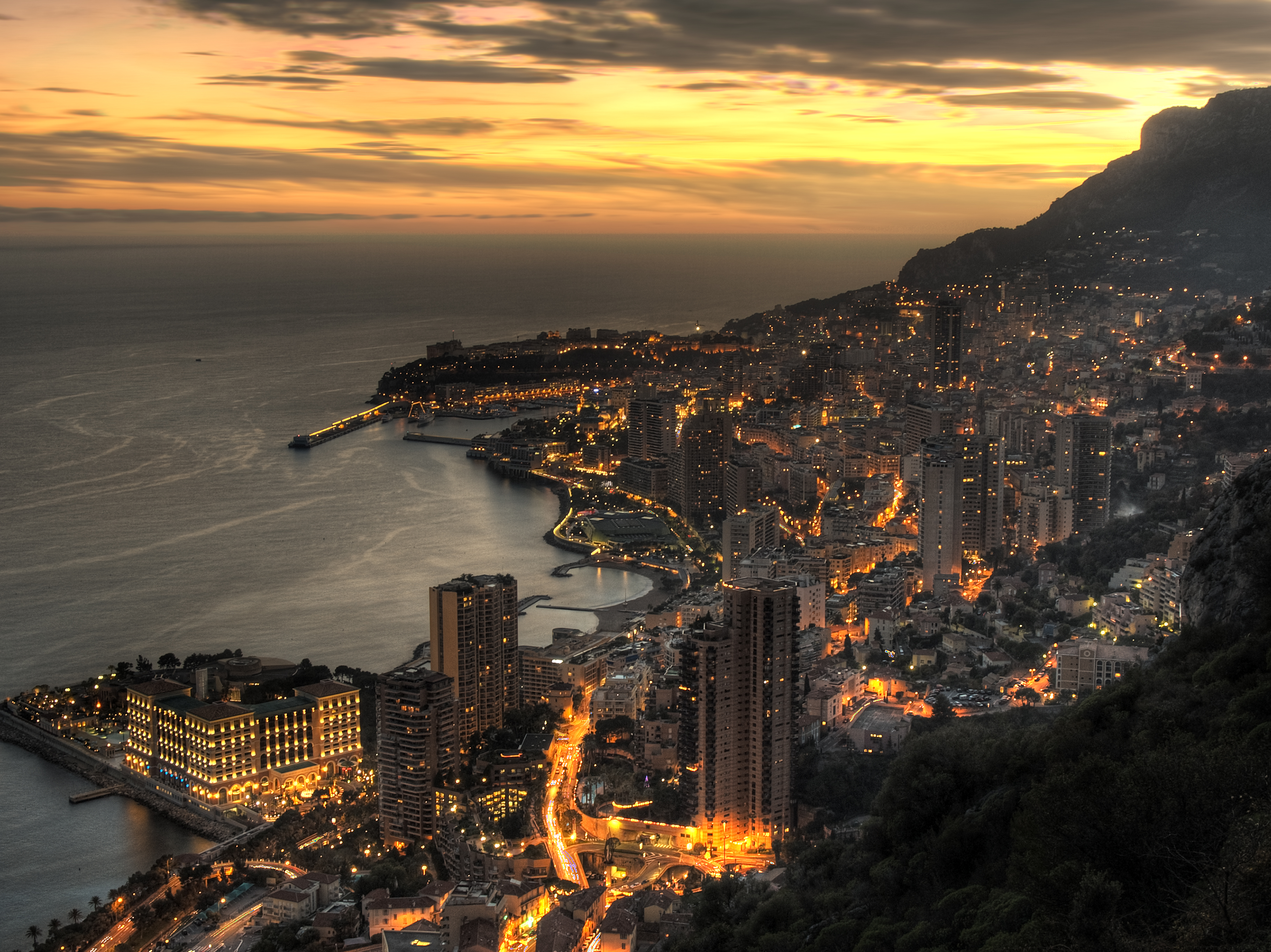 Monaco At Dusk HDR from 5 exposures (-2; -1; 0; +1; +2)